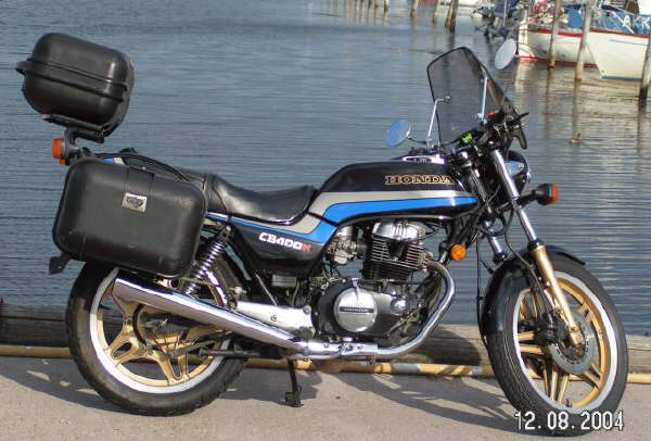 Honda 400N